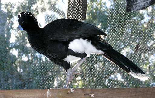 Blue-billed Curassow, Crax alberti, captive bird. Location: Jacksonville Zoo, Jacksonville, Florida, United States